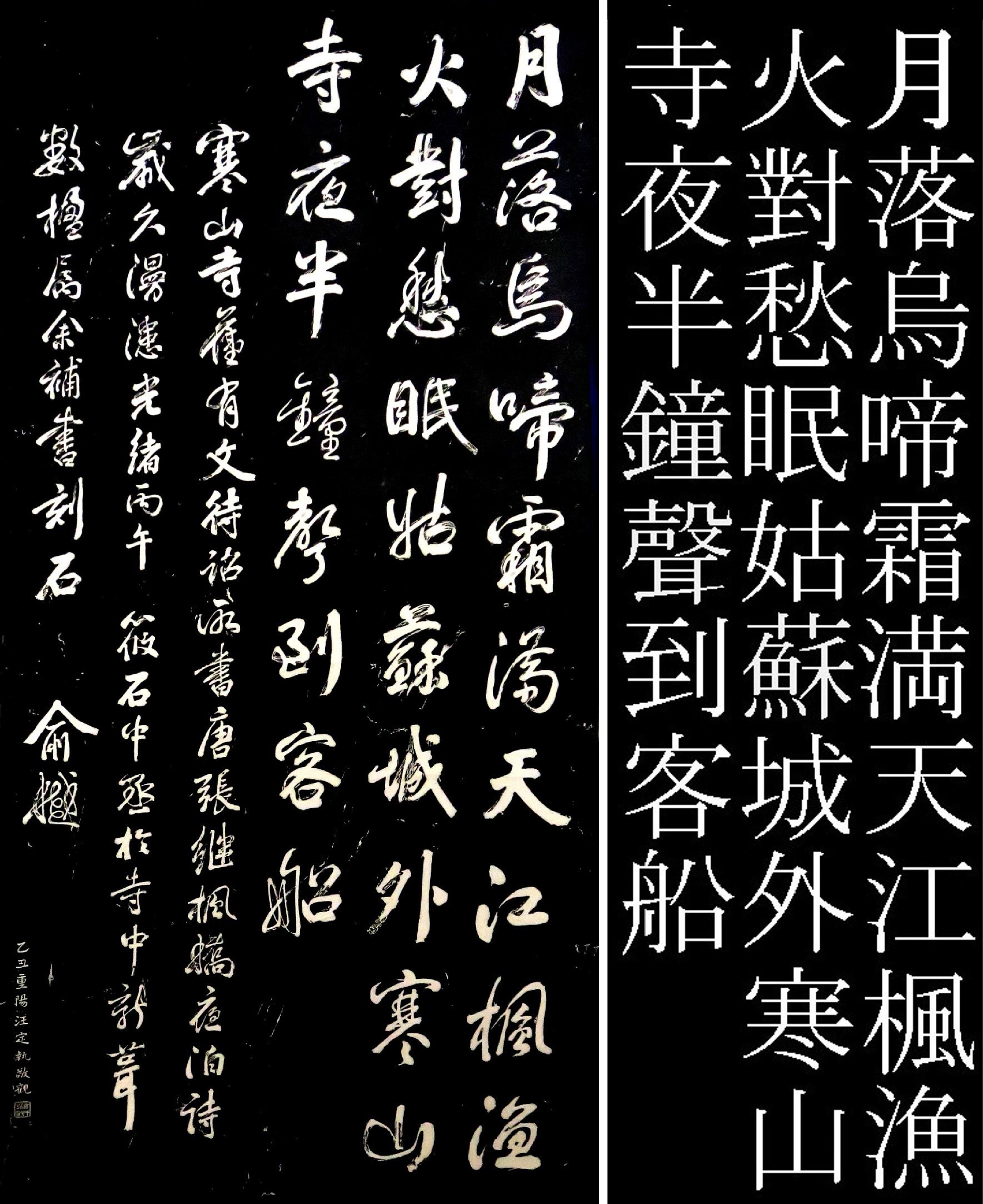 Inscription of a Poem by Zhang Ji